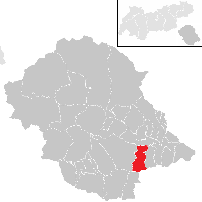 District Lienz